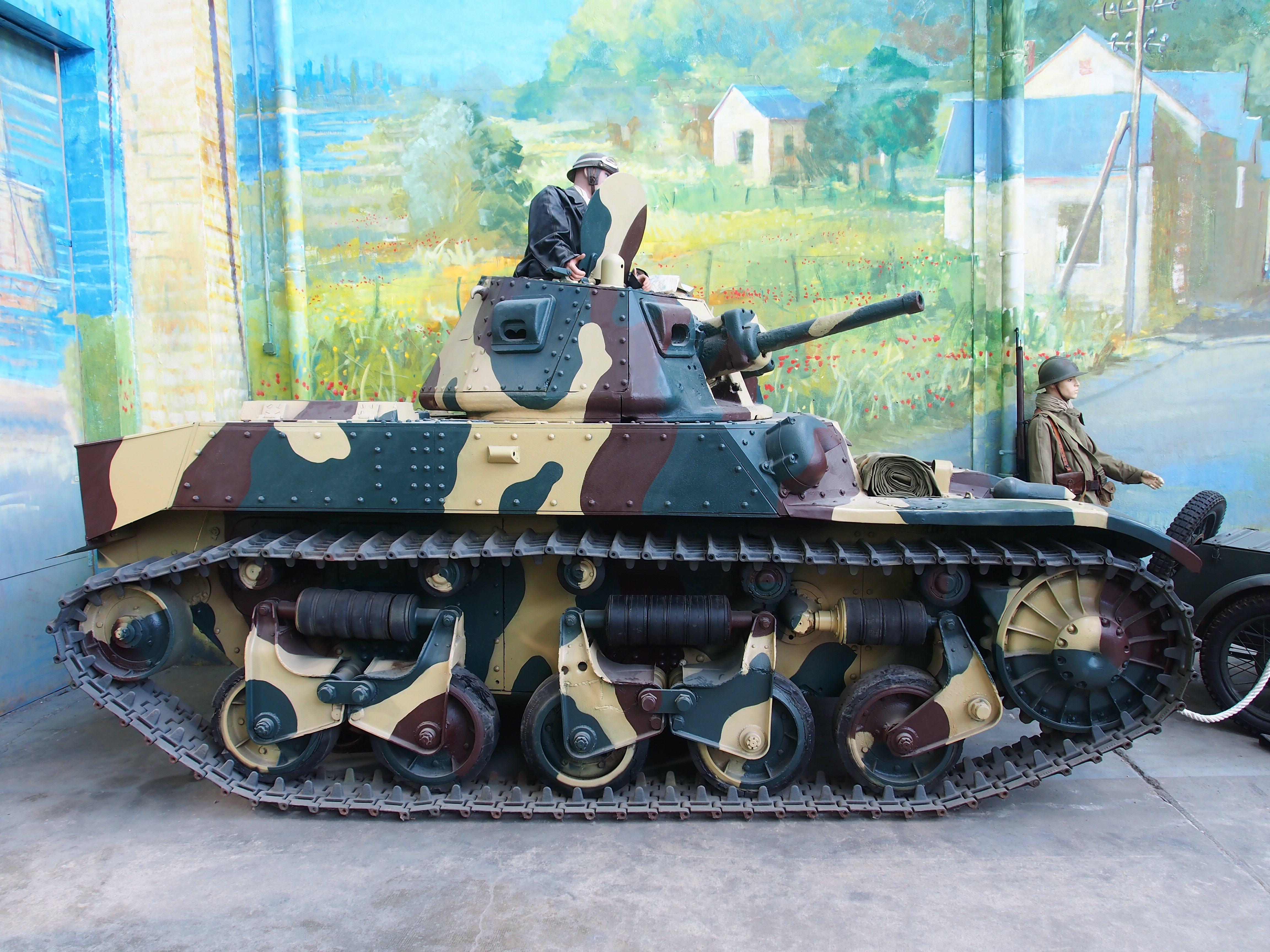 Photographed in the Musée des Blindés, France.